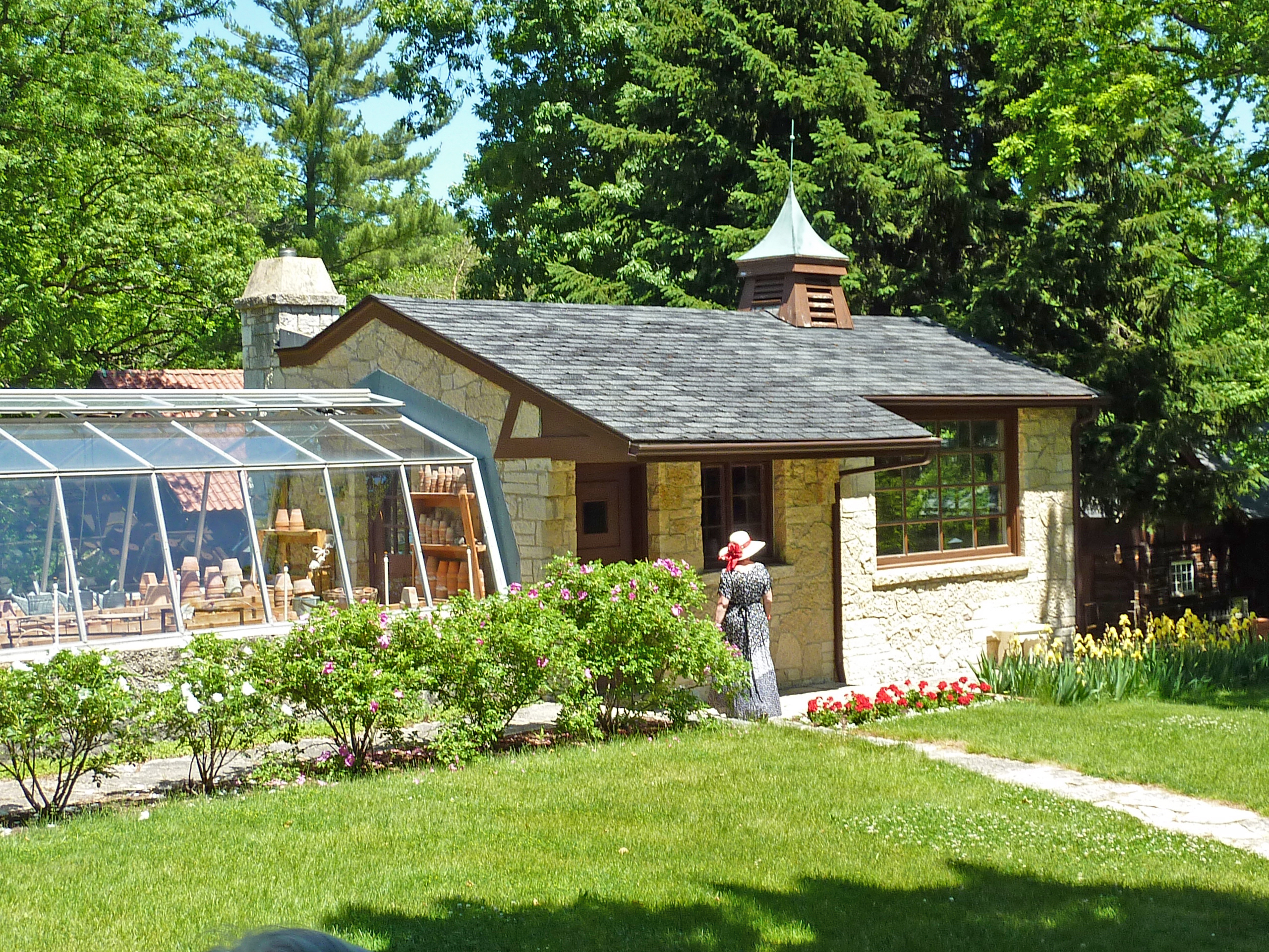 The greenhouse and the creamery at Ten Chimneys.